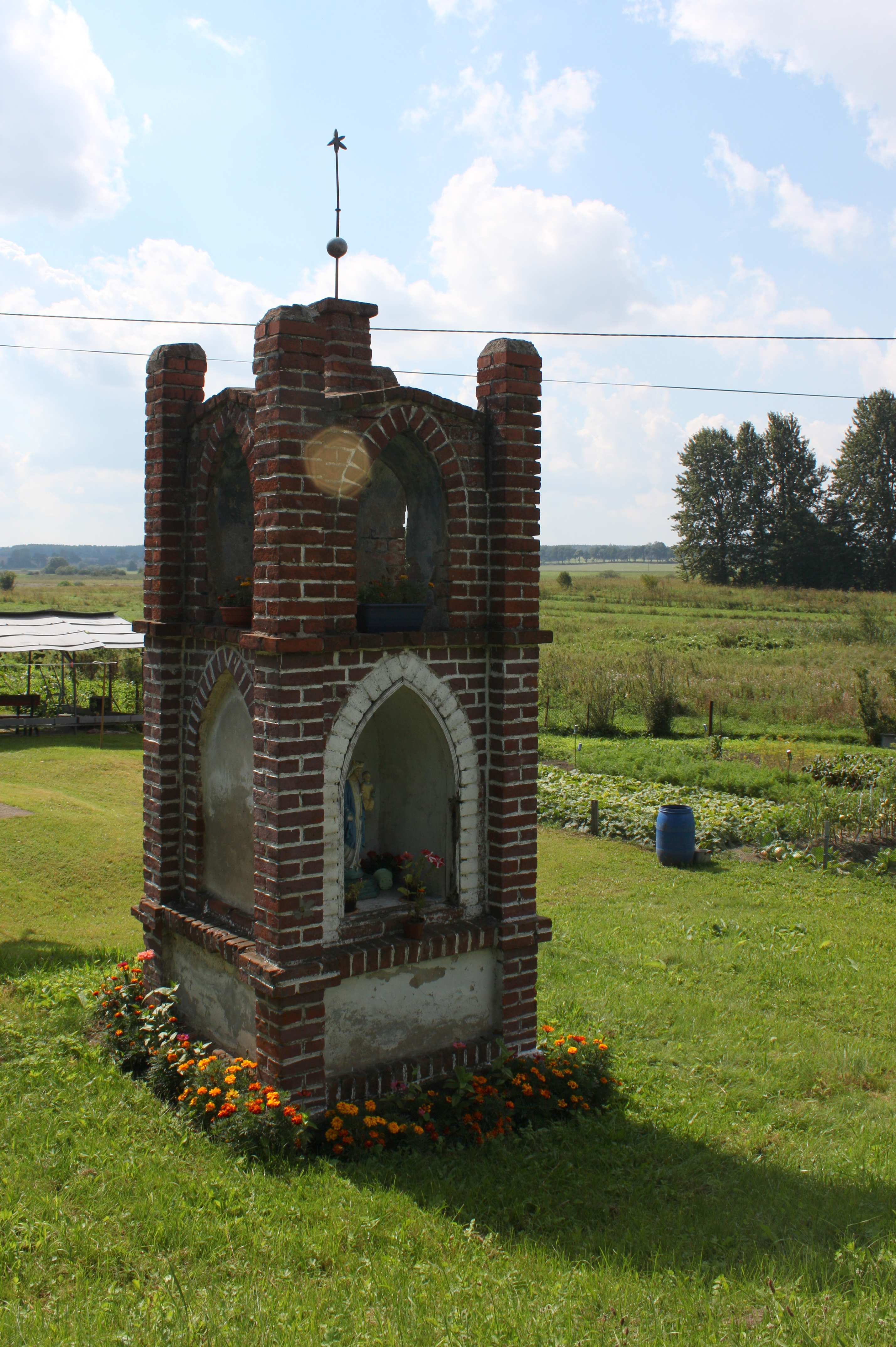 Shrine in Szczęsne (Szczęsne 12).